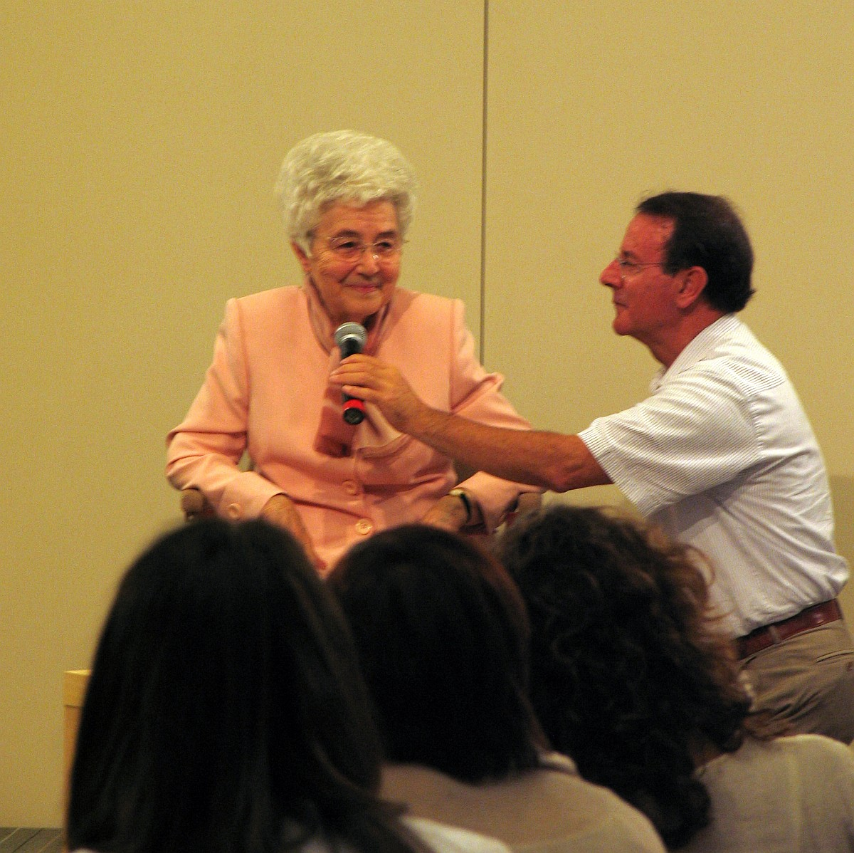 Chiara Lubich at one of her last public appearances. She spoke to 150 young artists in the Centro Mariapoli of Castelgandolfo.